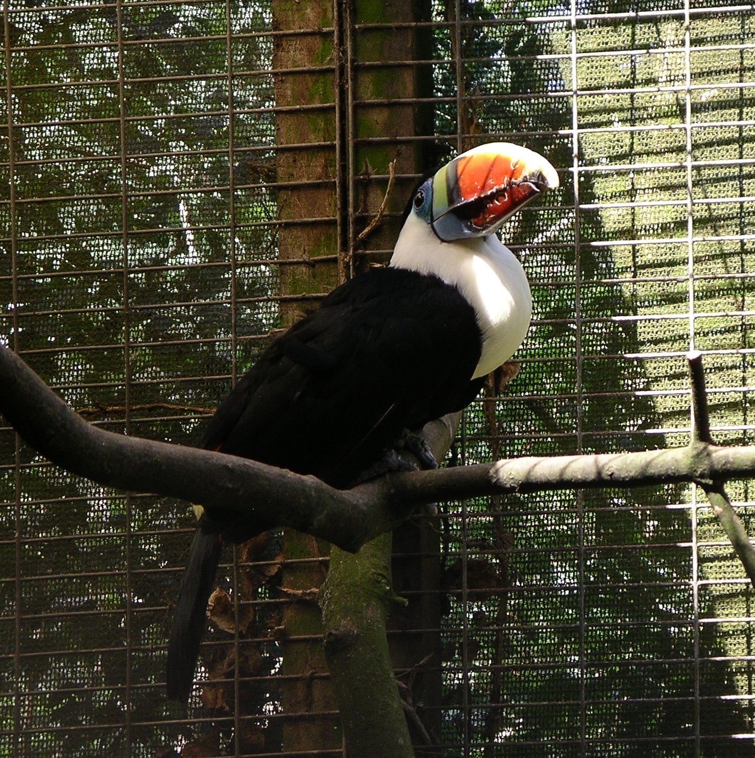 photo of a Red-billed Toucan Ramphastos tucanus in Tropical Birdland, Leicestershire, England. It is also called White-fronted Toucan.